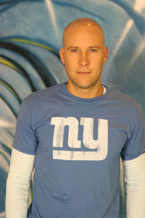 Michael Rosenbaum @ the BE Blow Out Aug 20th. Michael is Lex Luthor on Smallville and the voice of the Flash on Justice League